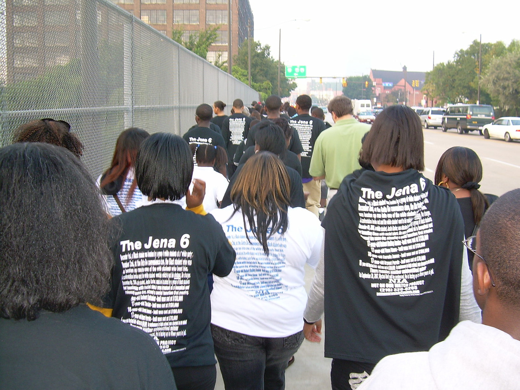 An image of a march in support of the Jena Six, held in Cleveland, Ohio.